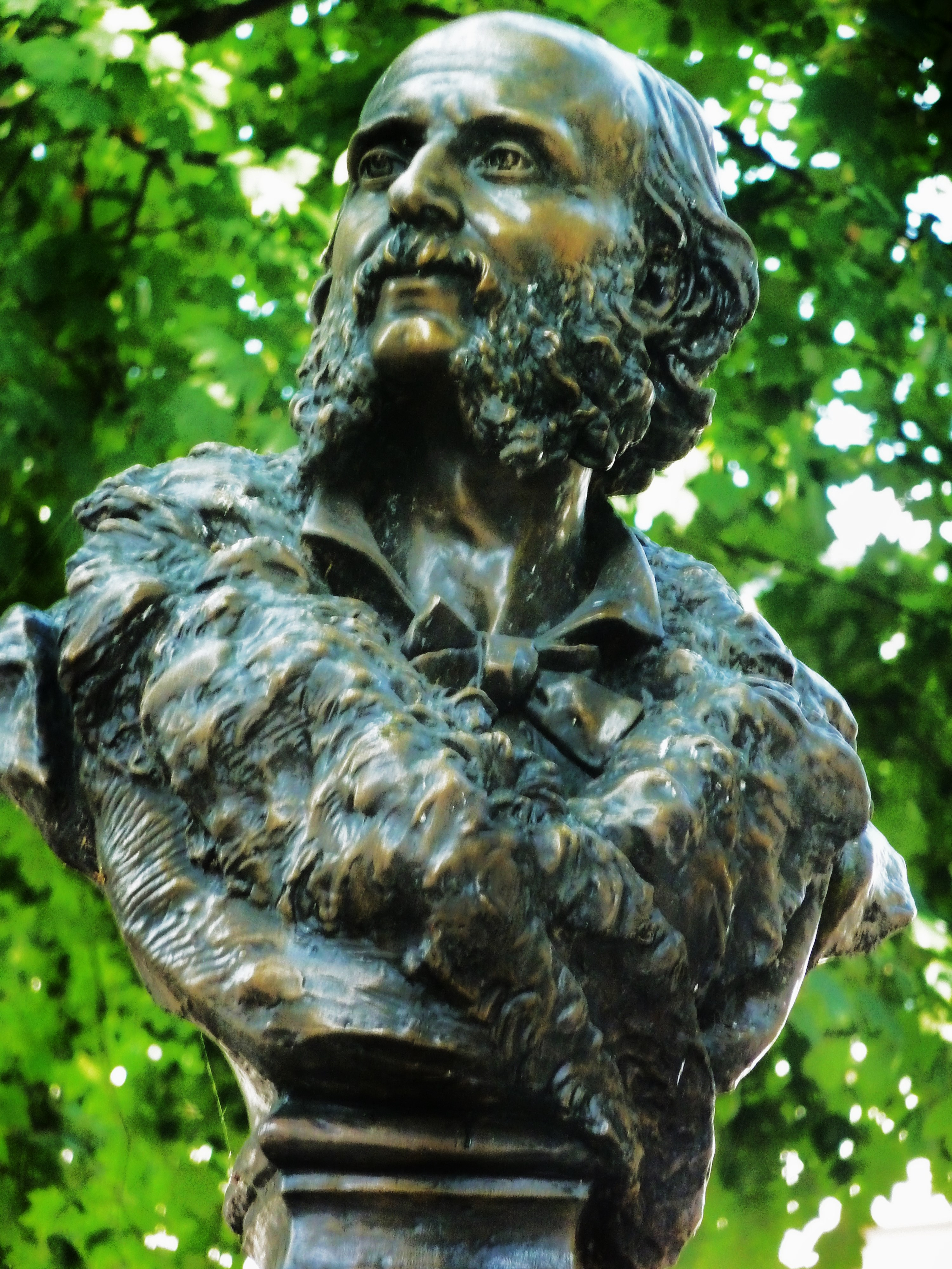 Cimetière de Montmartre - Jacques Offenbach